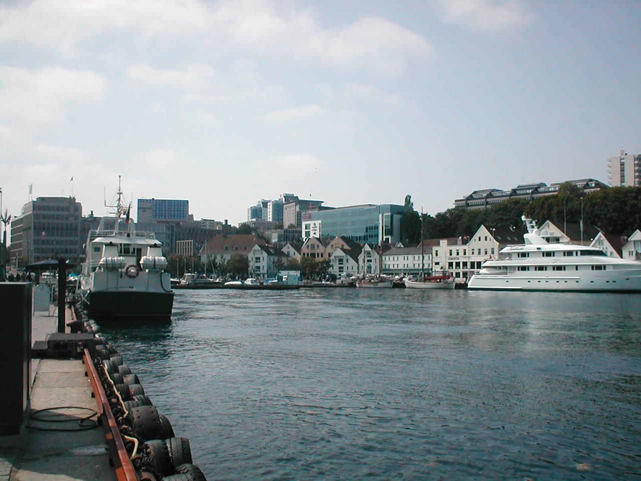 The inner harbour of Stavanger